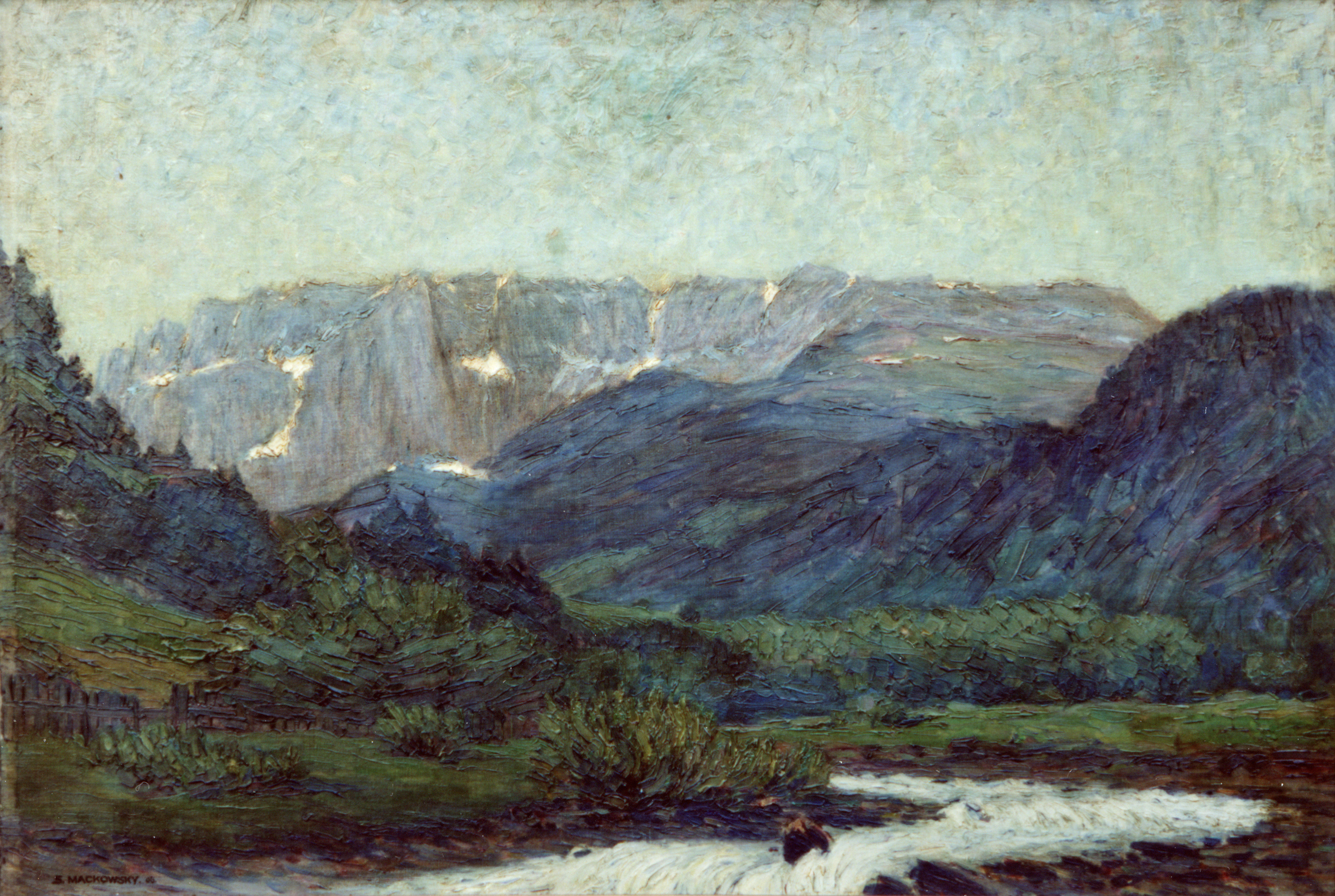 The Sella group by Siegfried Mackowsky Dresden (1878-1941) AD 1906. Private property